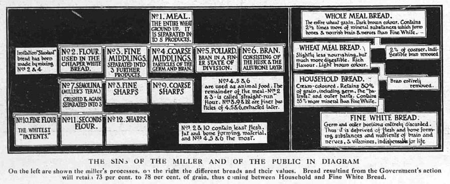 Mary Corkling in The Graphic 25 November 1916